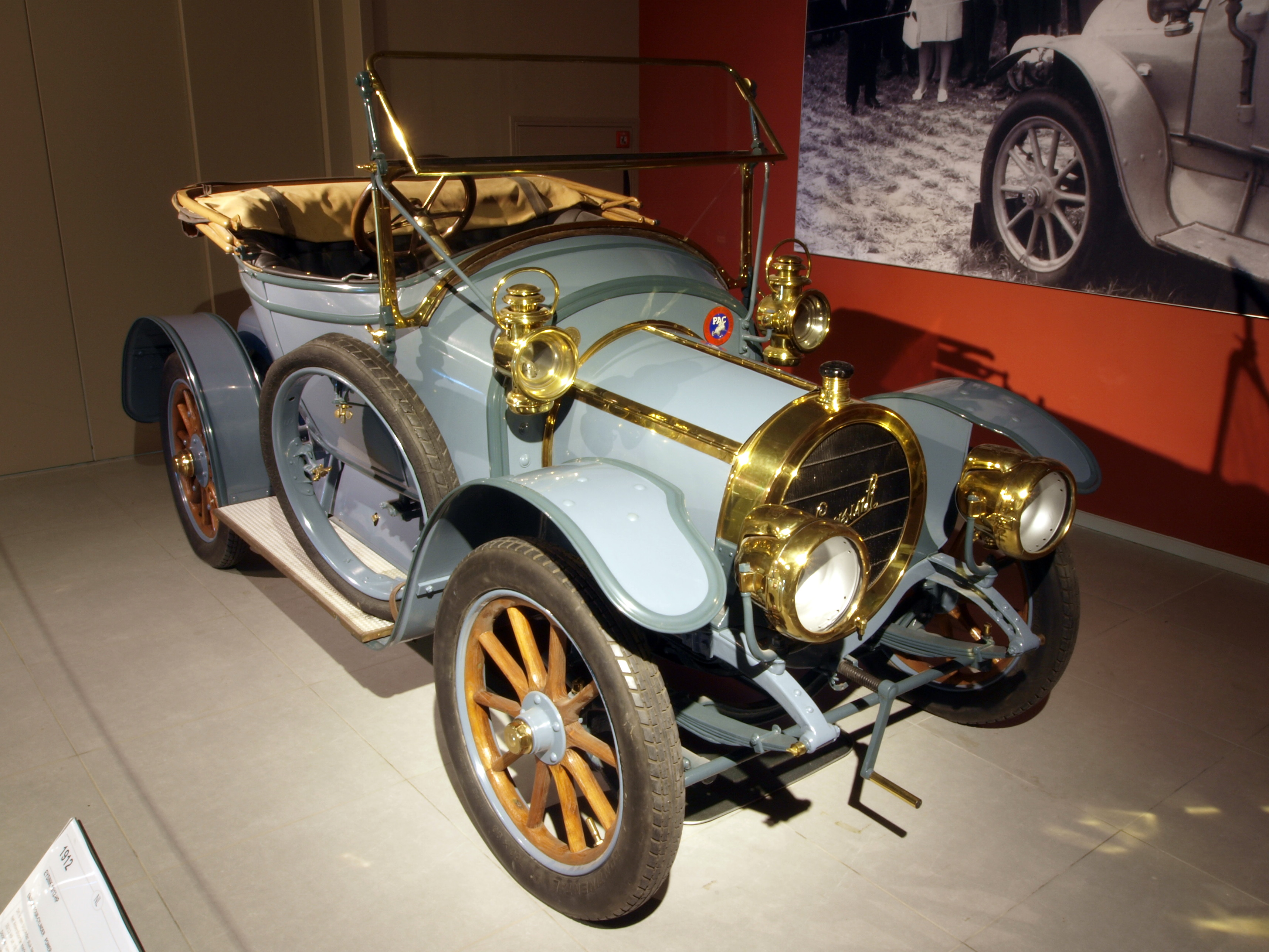 1912 Eysink 10/12-HP. Photographed at the Louwman museum, The Netherlands.